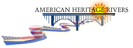 Logo of the EPA American Heritage Rivers Initiative.